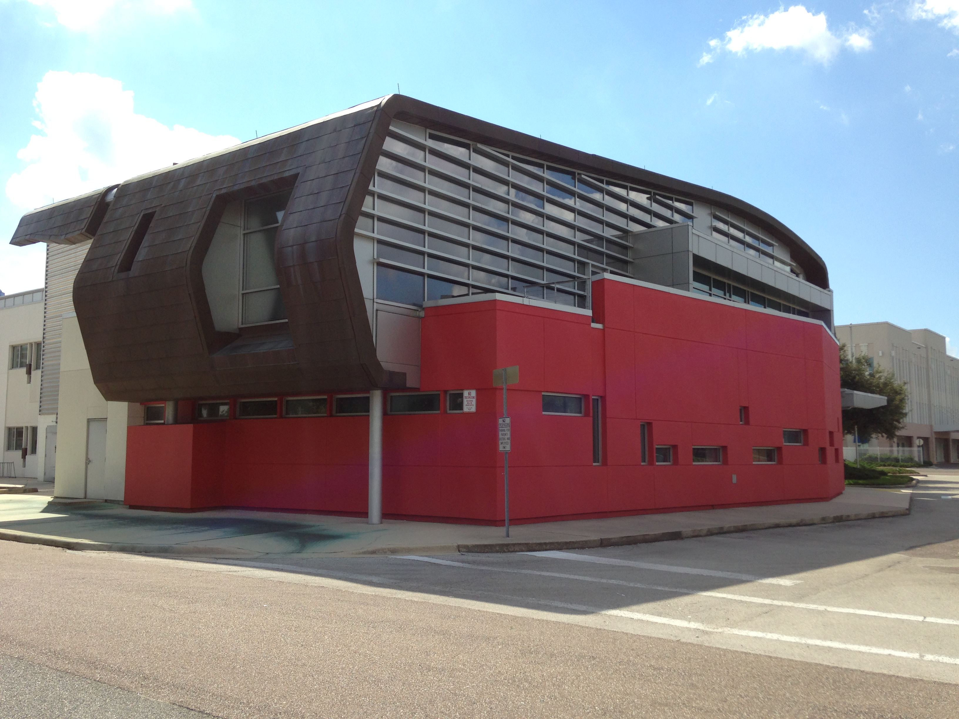 Office building in the Lavilla district of Downtown Jacksonville, Florida